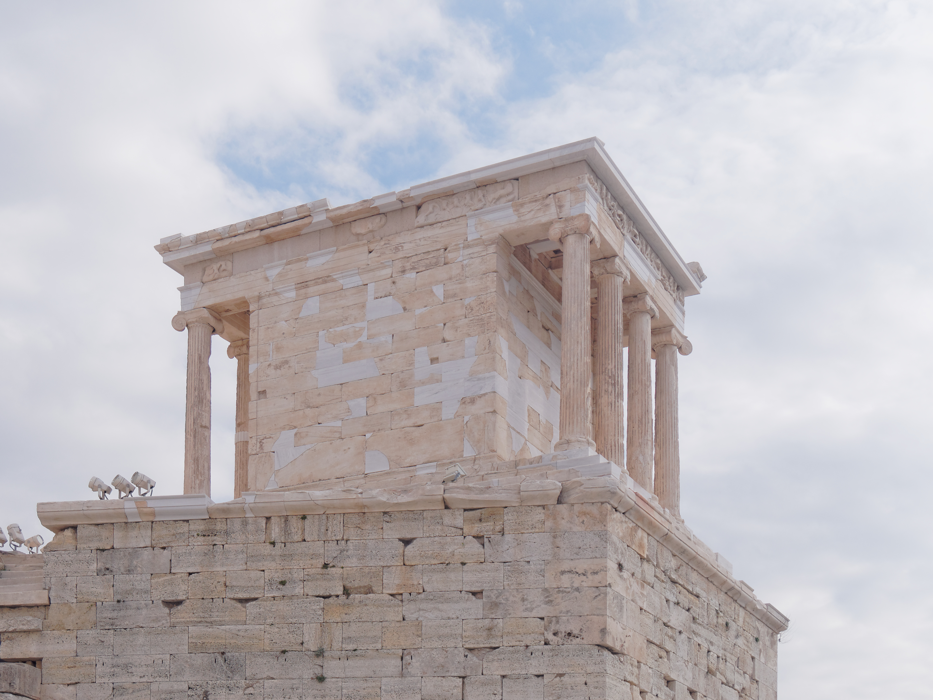 Northwest view of the Temple of Athena Nike, Athens«Ναός της Αθηνάς Νίκης»